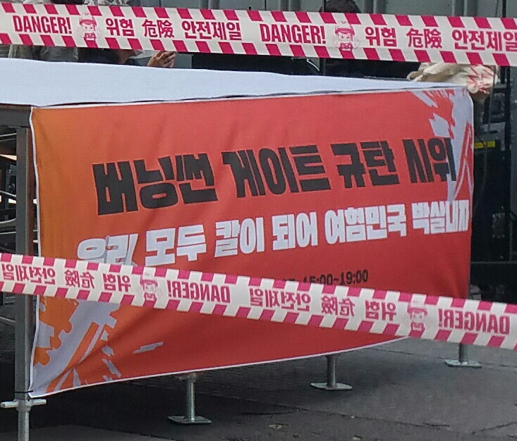 Burning Sun nightclub protest, Sinnonhyeon Station Exit 6, (Le Méridien Hotel), Gangnam-gu, Seoul, May 25, 2019.